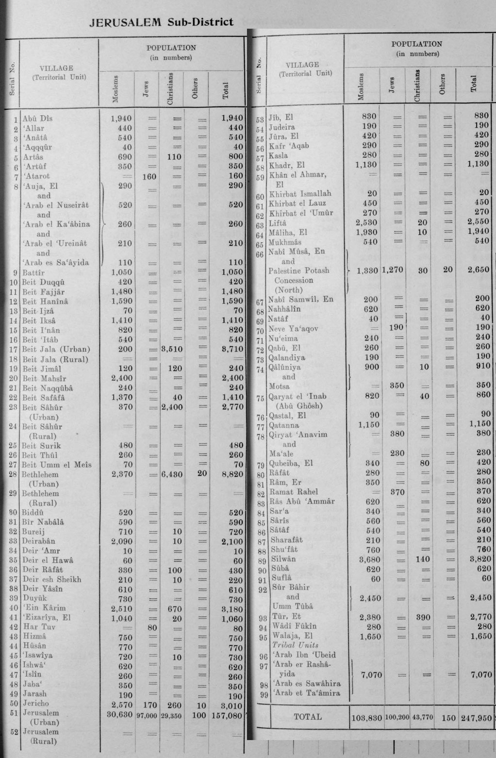 1945 Palestine Mandate Village Statistics